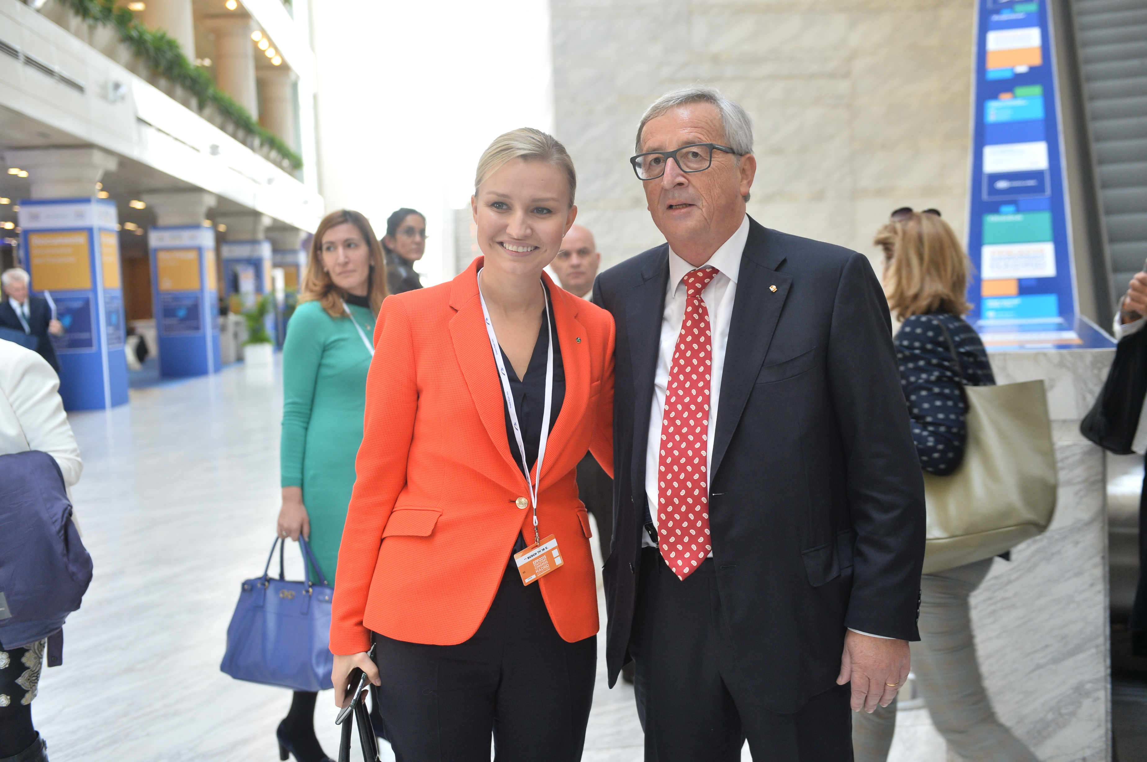 EPP Congress Madrid - 22 October